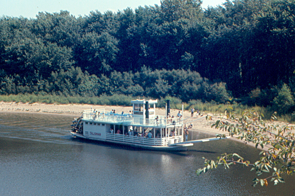 The small excursion paddle wheel steamboat (or maybe motor driven) on the Sangamon River near New Salem, Illinois. The Sangamon River is not a major waterway.